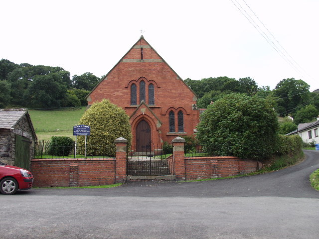 Capel Hebron at Rhewl. The community of Rhewl is west of Llangollen up the Afon Dyfrdwy.